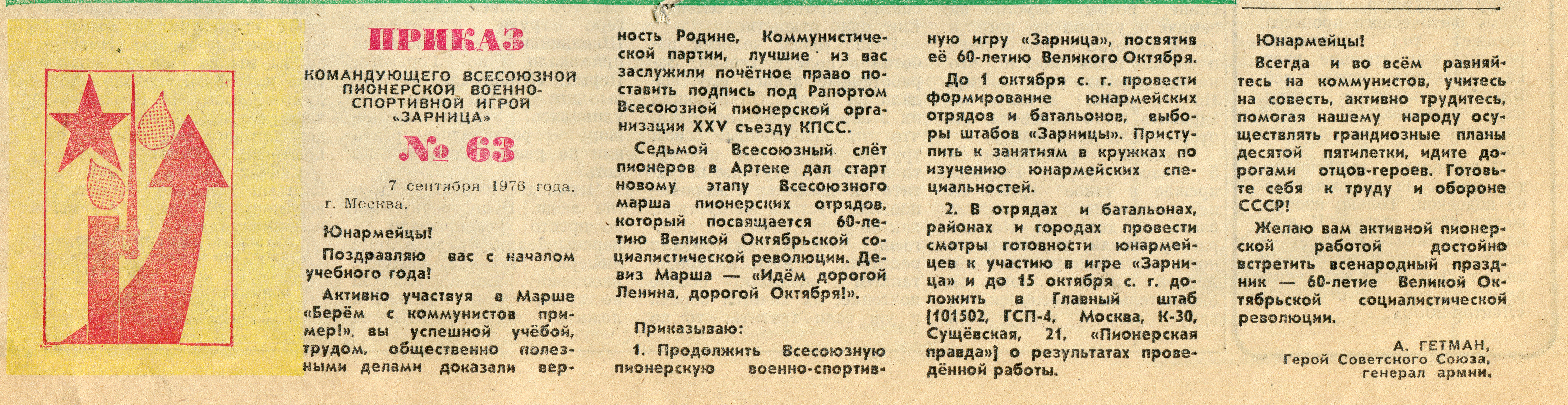 USSR. Newspapers Pionerskaya Pravda. The organ of the Central Committee of the Komsomol and the Central Council of the All-Union Pioneer Organization named after V.I. Lenin. Order of the commander of the All-Union Pioneer military sports game "Zarnitsa". September 7, 1976